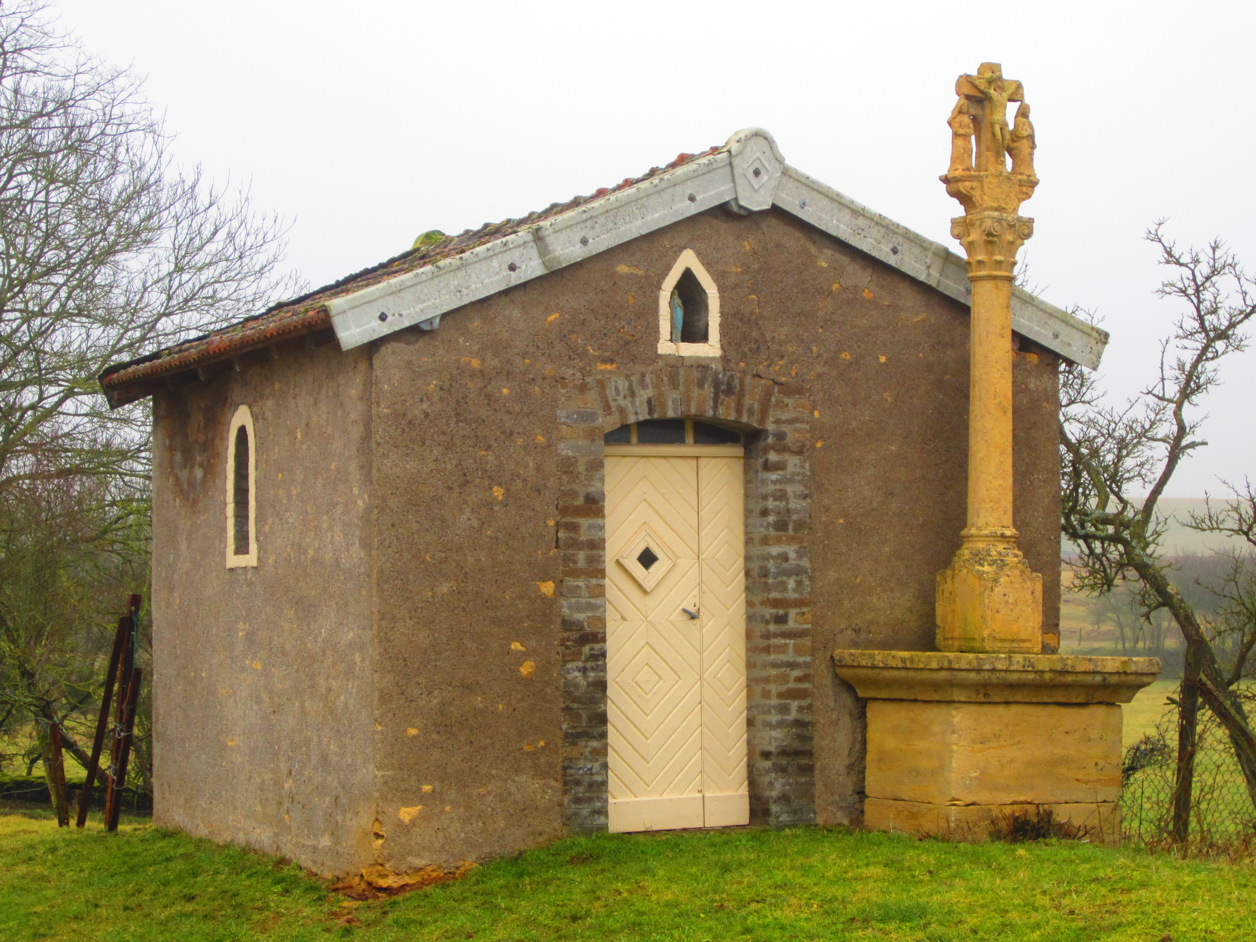 Circourt Xivry chapel